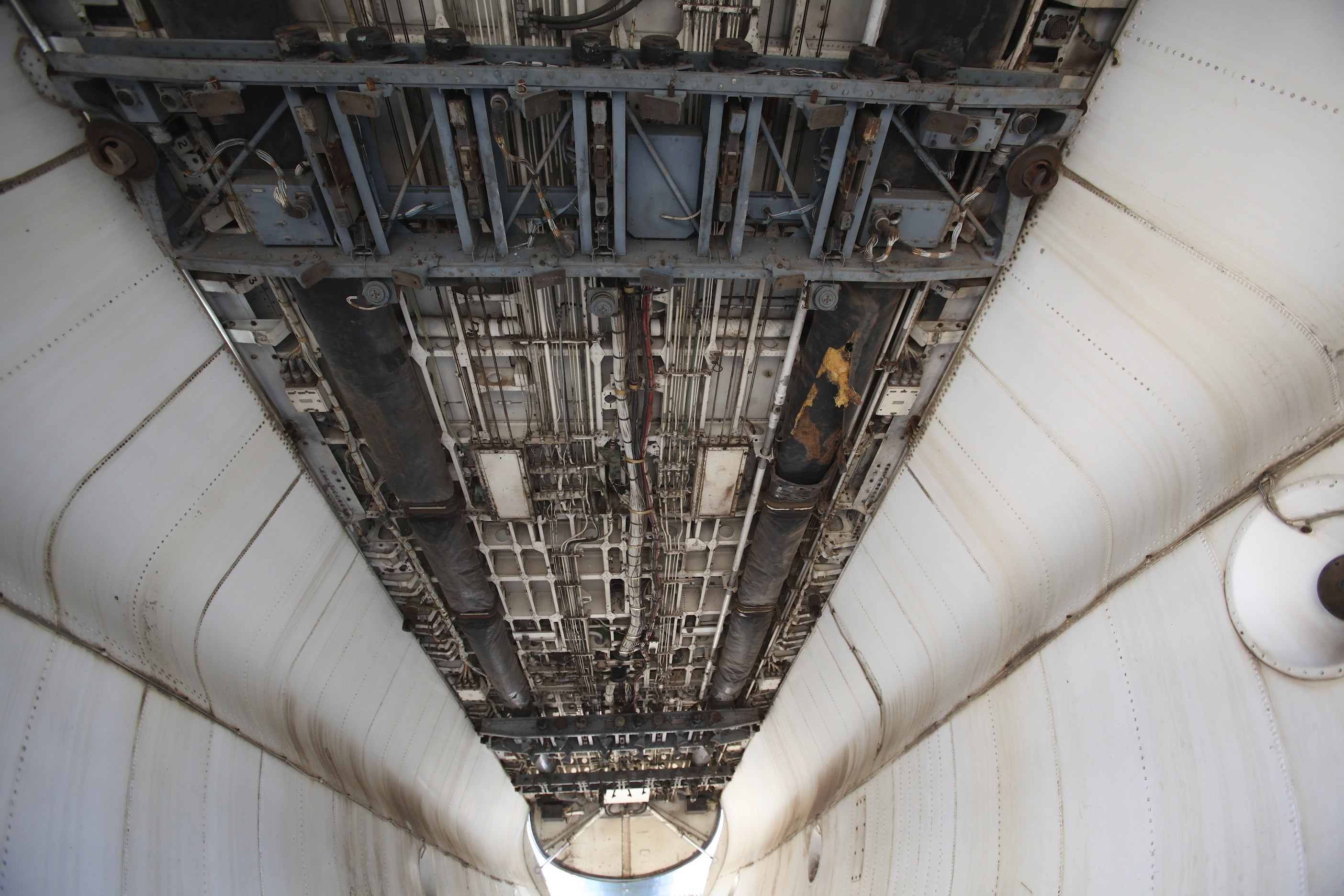 Bomb Bay on SAAF 1721 Avro Shackleton. SAAF Museum, Swartkop, Pretoria